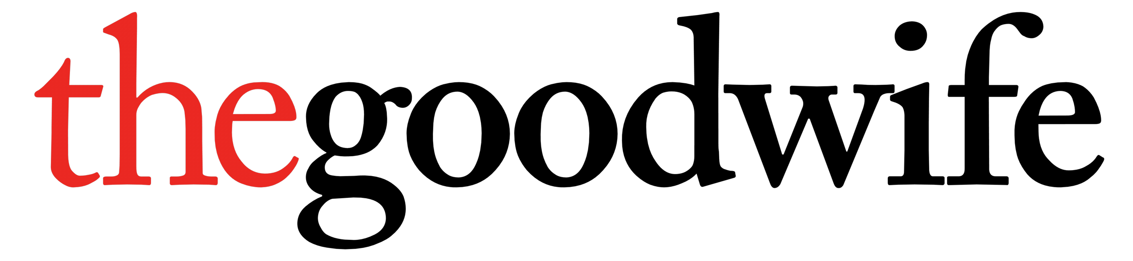 Original logo of the television series The Good Wife